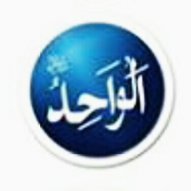 Al-Wāhid / The One / The Unique is a name of God in Islam, is a name of Allah.